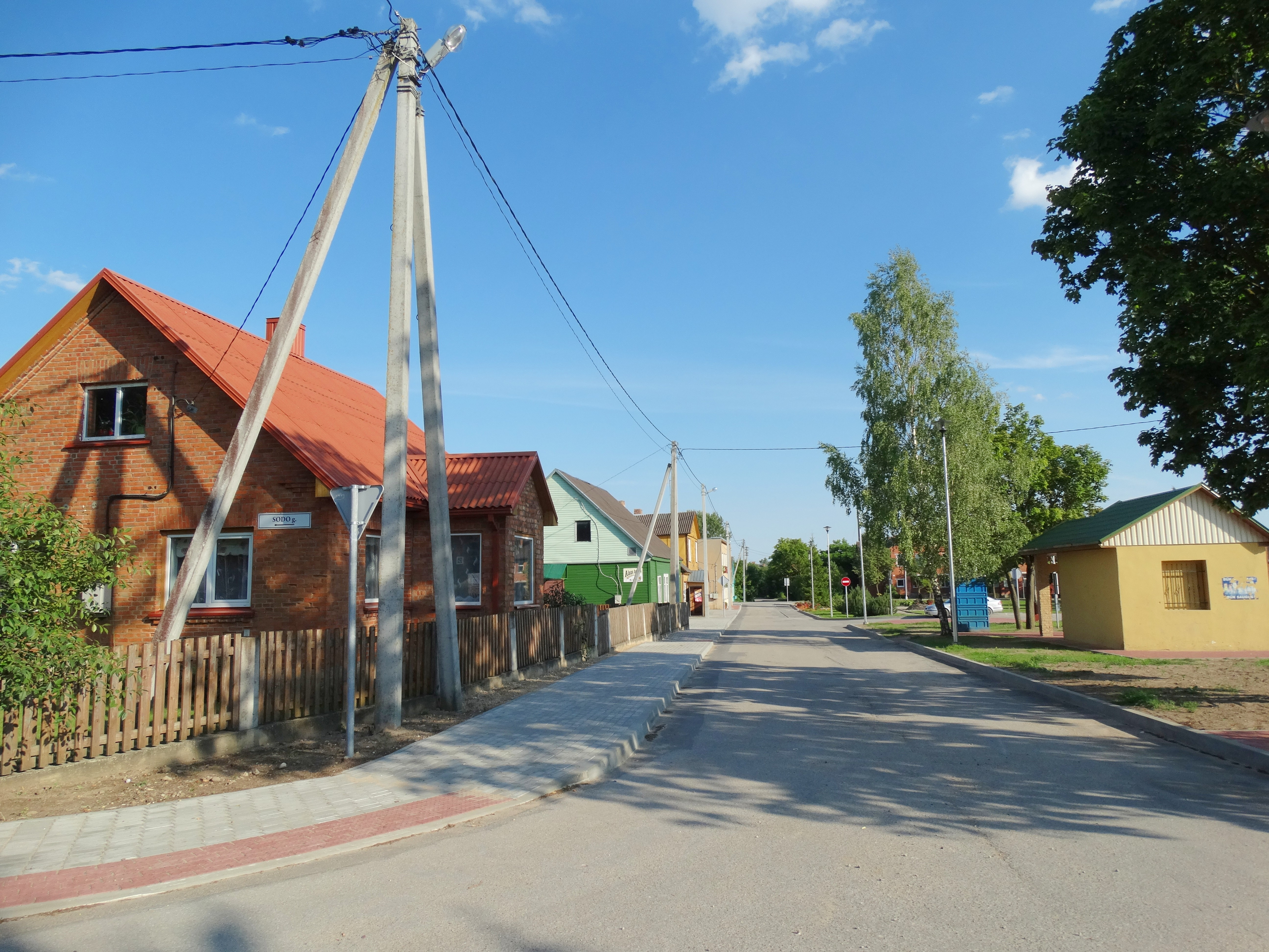 Lygumai, Pakruojis District, Lithuania